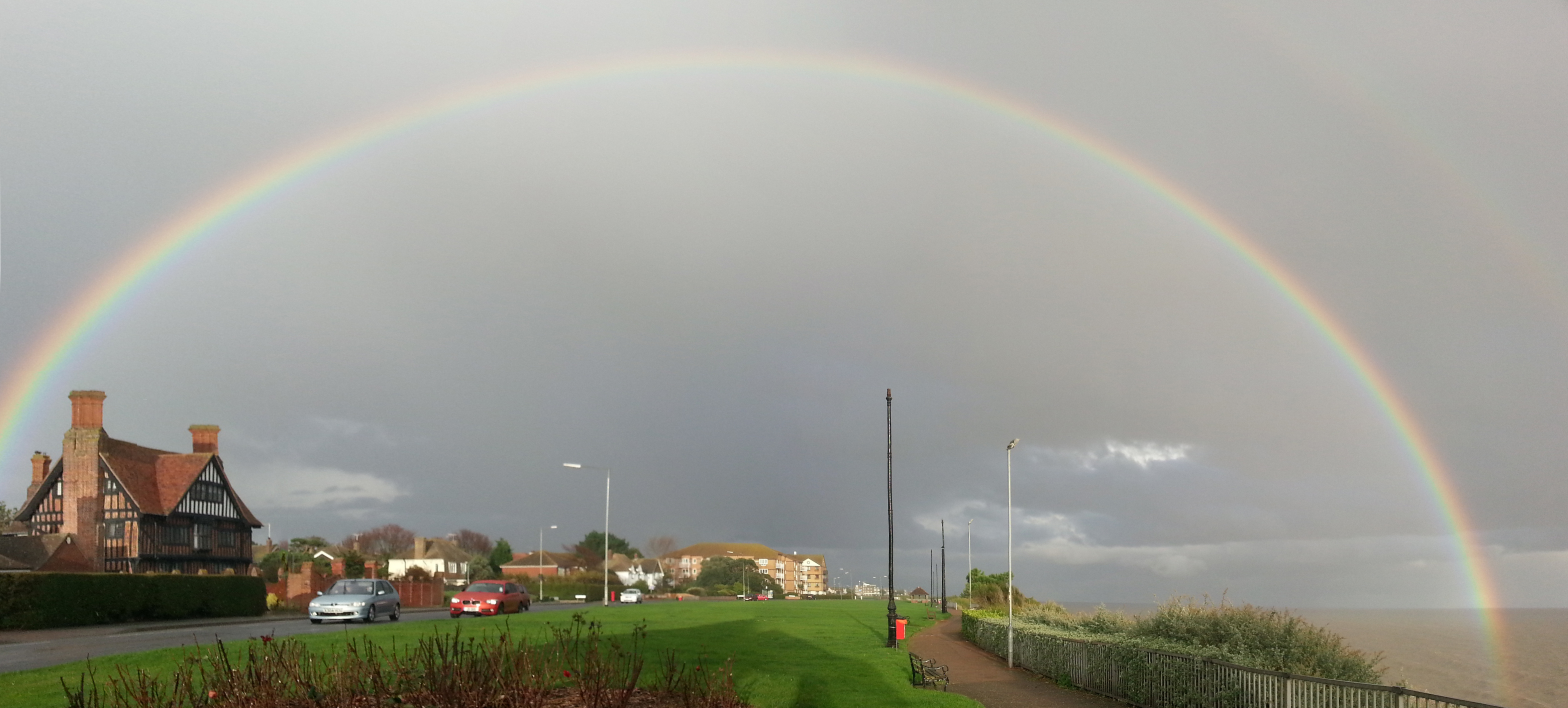 Full rainbow taken in Clacton-On-Sea in Essex UK